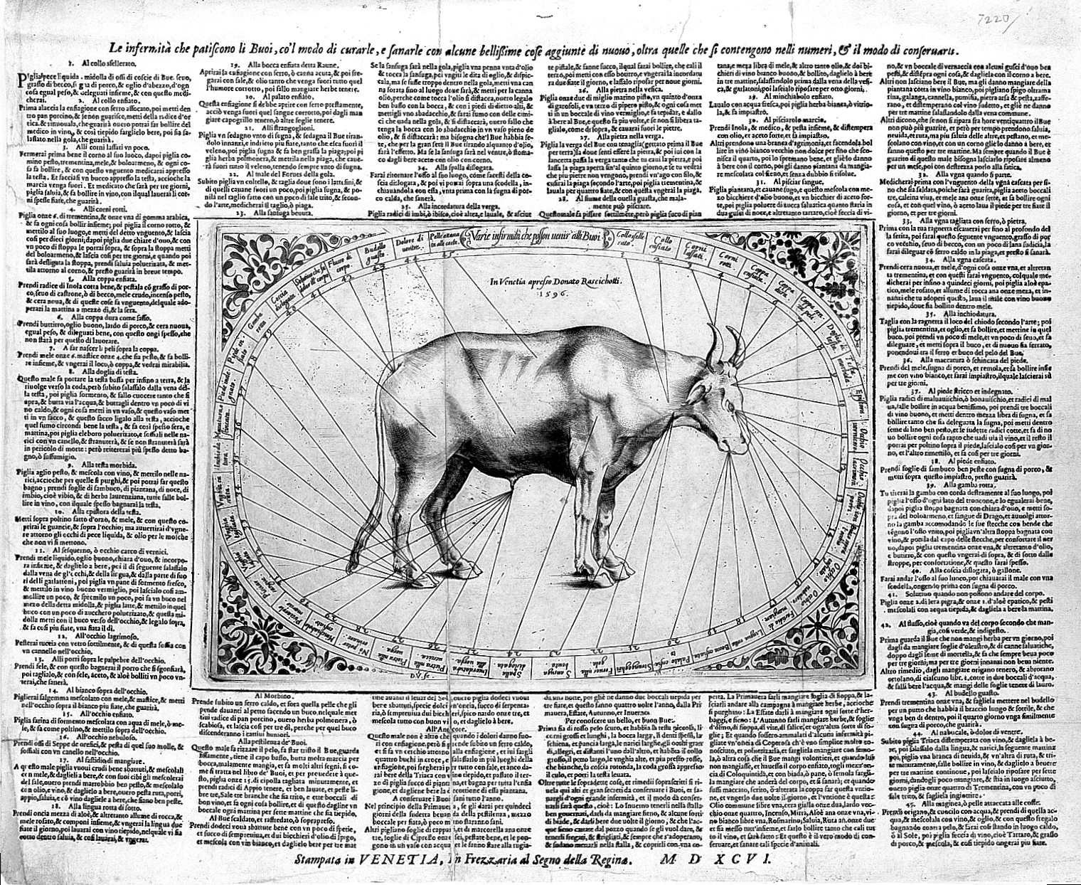 Engraving of an ox by D. Rascichotti and text. Rare Books Keywords: Veterinary Medicine; Donato Rascichotti